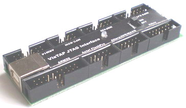 ViaTAP JTAG Interface